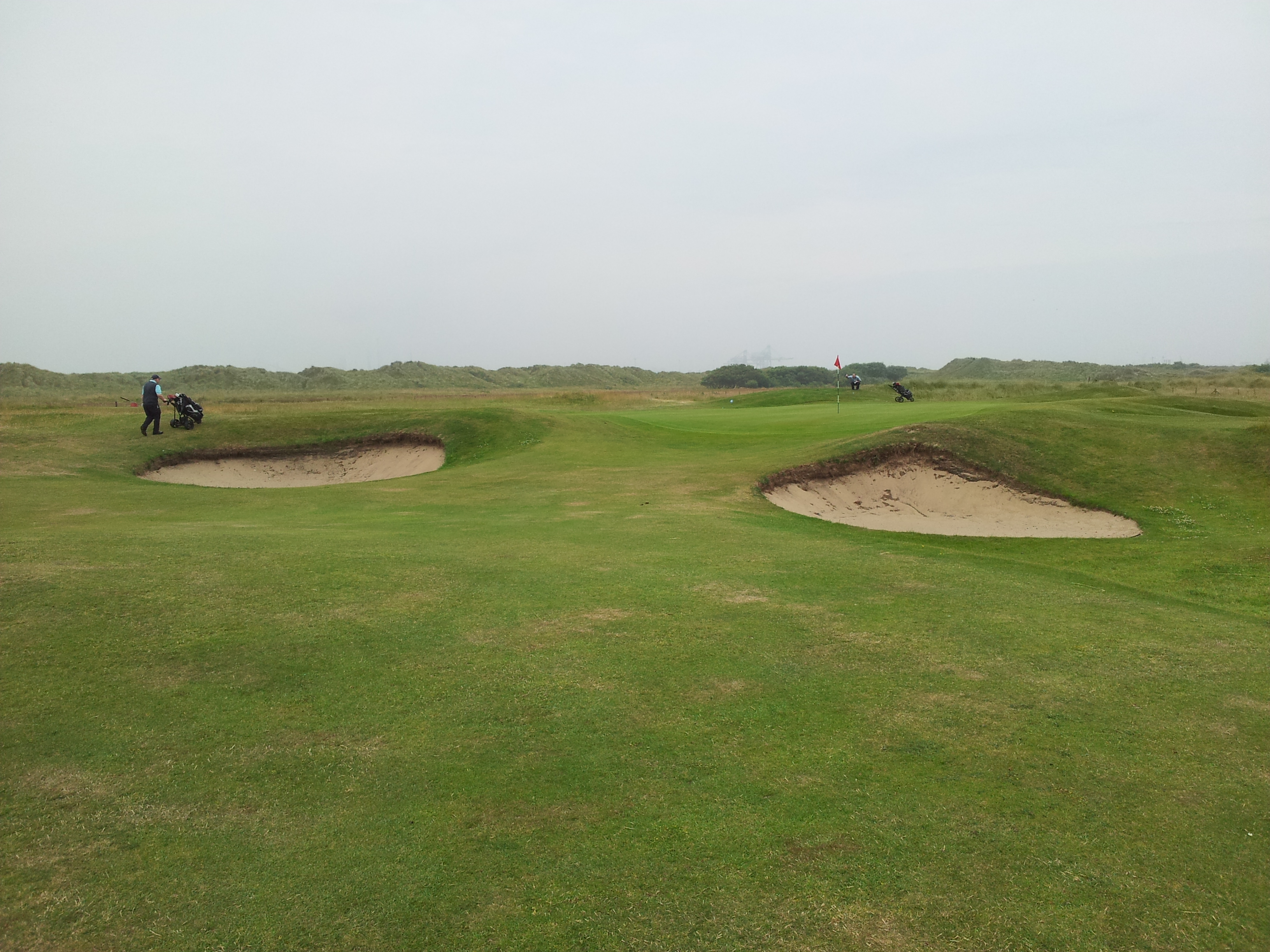 This golf hole at Seaton Carew Golf Club commemorates the club's former professional James Kay who particpated in 22 Open Championships.